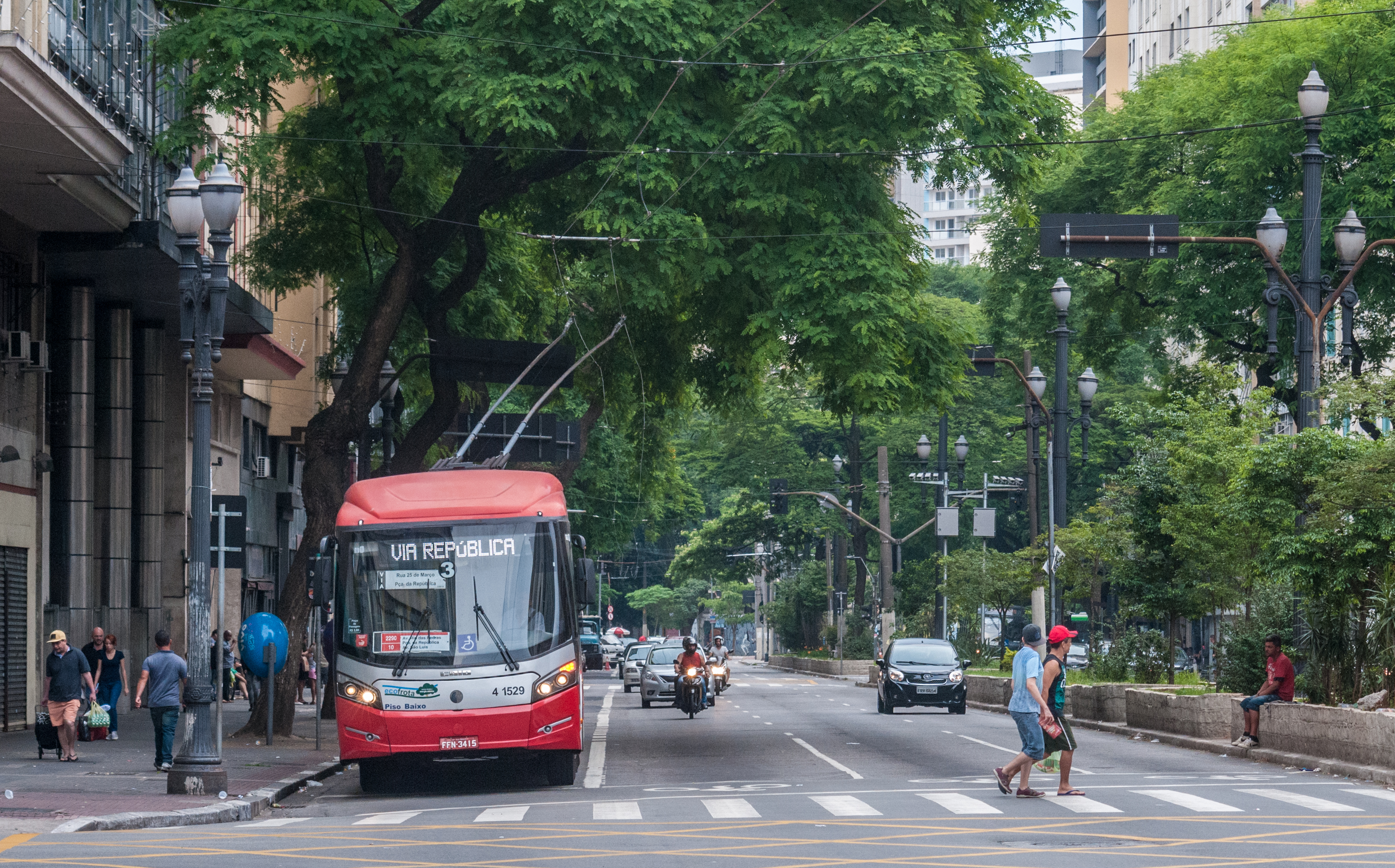 São Paulo downtown transport, Brazil